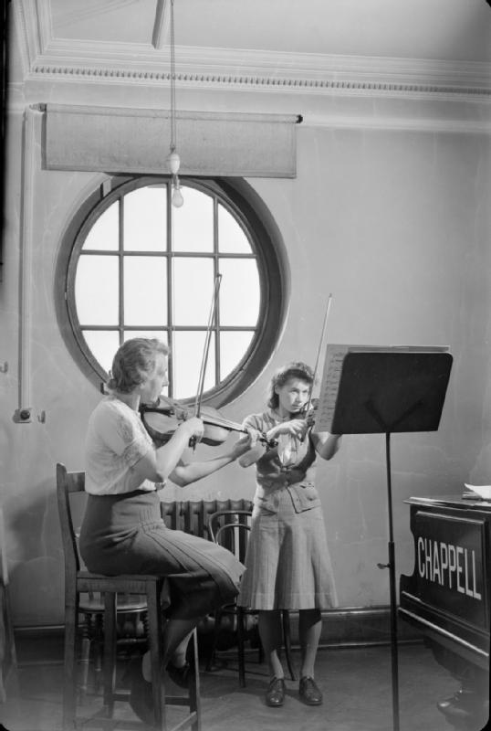 Royal Academy of Music- the work of the Royal Academy in Wartime, London, England, UK, 1944 Miss Winifred Small (left) is a BBC soloist and professor at the Royal Academy of Music. Here she can be seen giving a violin lesson to a female first year student at the Academy. A piano is just visible on the right of the photograph.